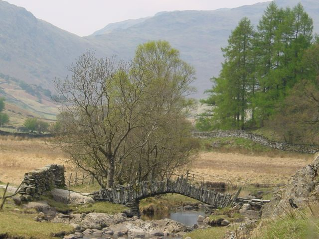 Slater's Bridge over the River Brathay between Little Langdale and Coniston, Cumbria. Wrynose Pass is on the horizon in the background.